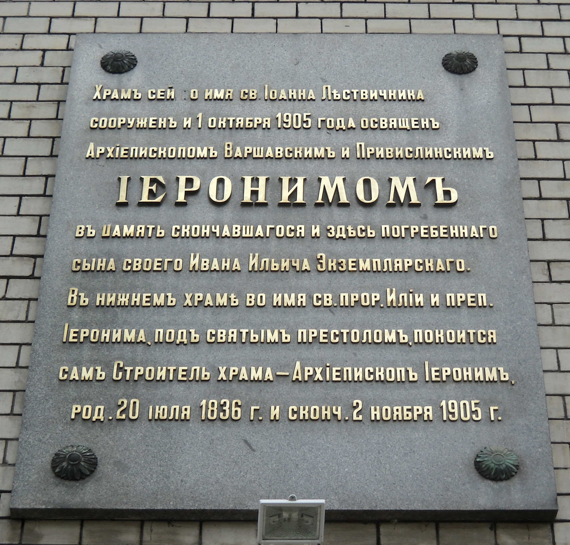 A plaque conmemorating the foundation of Orthodox church of St. John Climacus in Warsaw by archbishop of Warsaw Ieronim